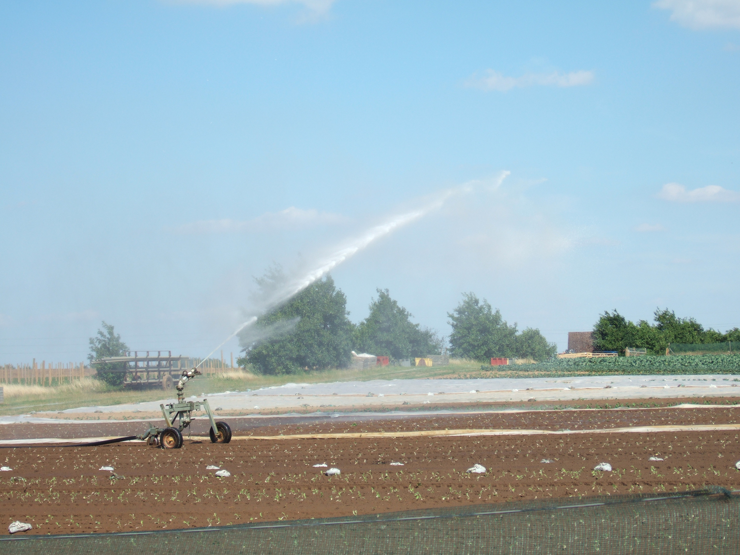 A travelling sprinkler at Millets Farm Centre, Oxfordshire, UK